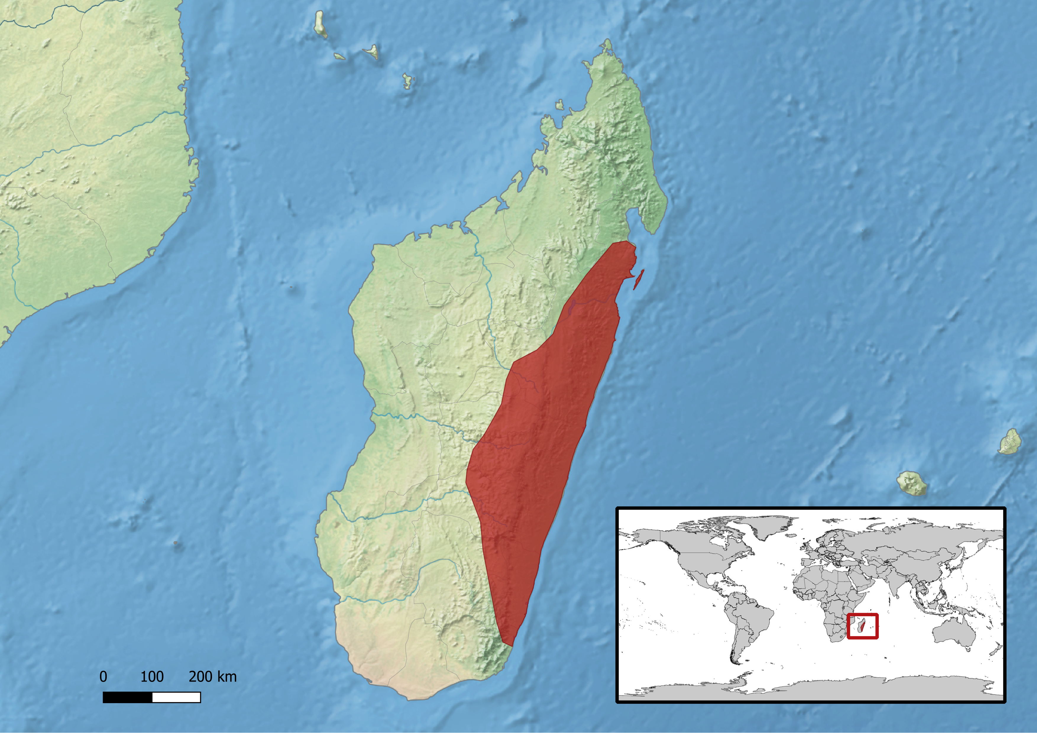 geographic distribution of Furcifer lateralis (Native: Madagascar)